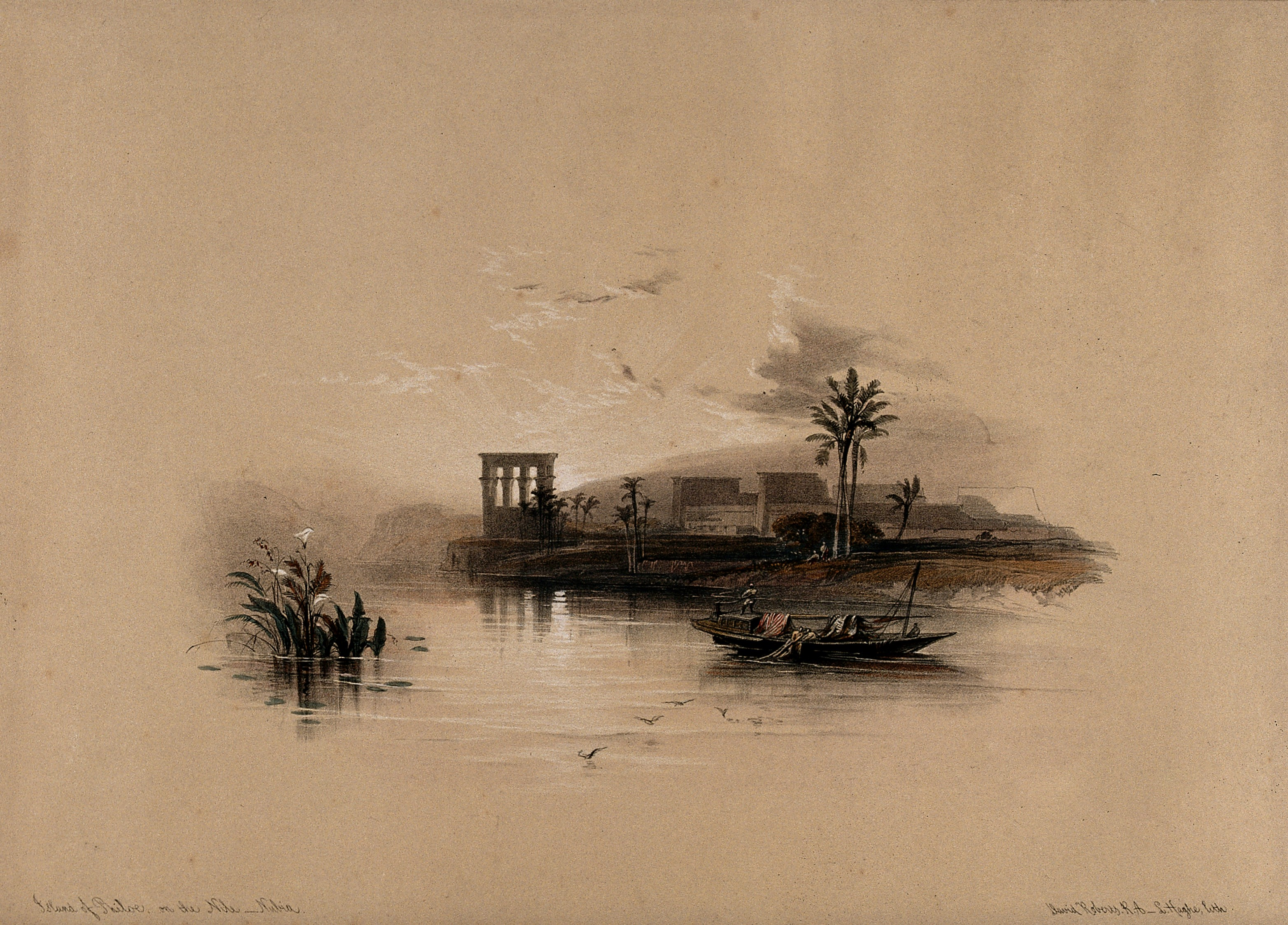 Temple of Philae, seen from the Nile, Egypt. Coloured lithograph by Louis Haghe after David Roberts, 1849. Iconographic Collections Keywords: David Roberts; Louis Haghe